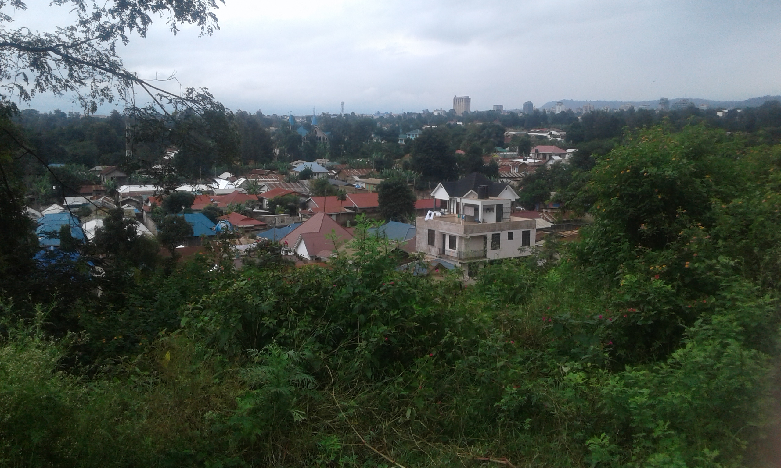 A view of Daraja II street from Mount Shabaha, Arusha Tanzania.